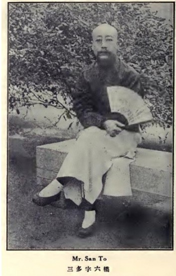 San Duo (1875- ？)